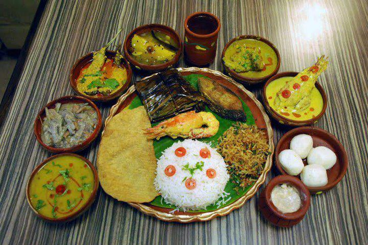 Bengali authentic full meal